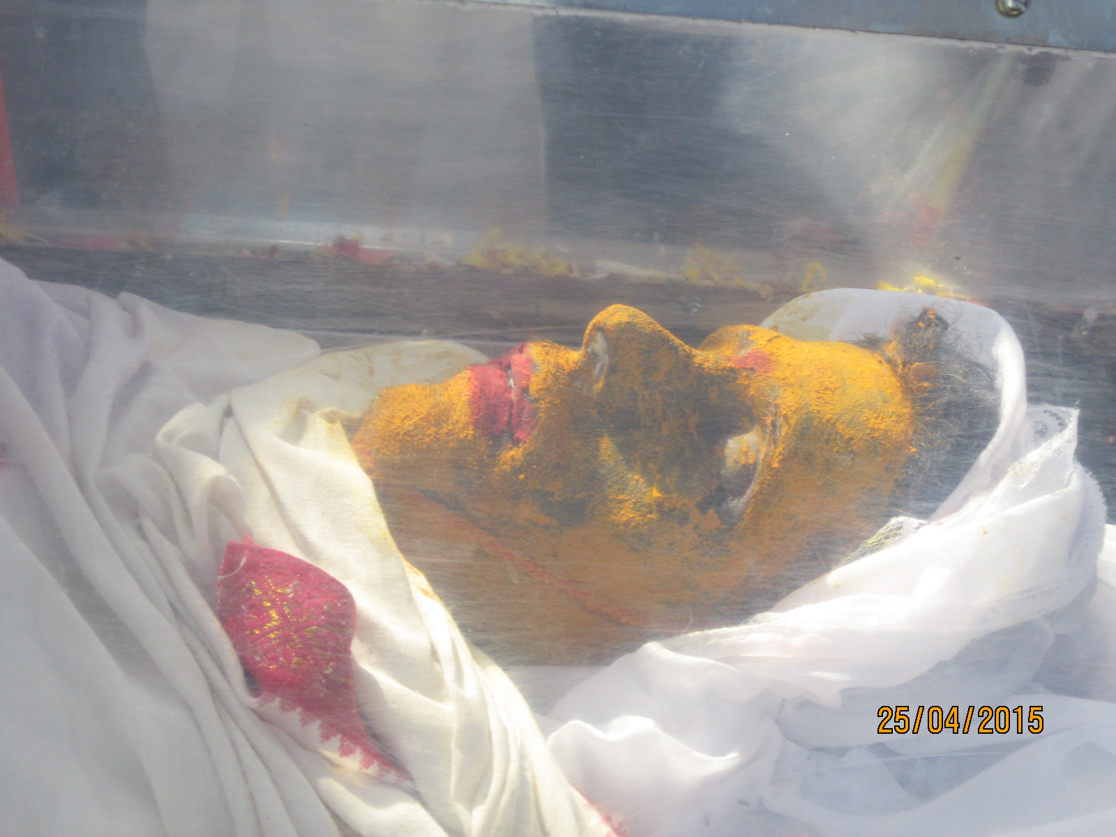 Indian mountineer died on 24-4-2015 in arjentina